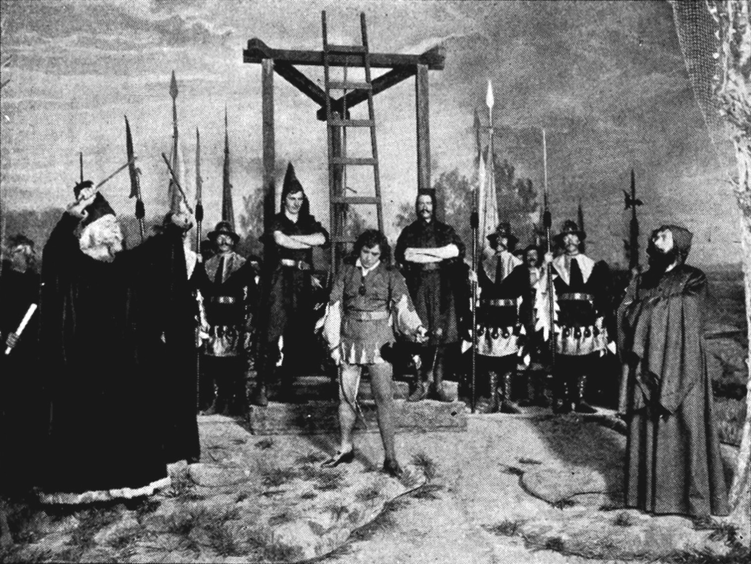 Thuille - Lobetanz - The gallows scene - White Title: The Victrola book of the opera : stories of one hundred and twenty operas with seven-hundred illustrations and descriptions of twelve-hundred Victor opera records Year: 1917 (1910s) Authors: Victor Talking Machine Company Rous, Samuel Holland Subjects: Operas Publisher: Camden, N.J. : Victor Talking Machine Co. Text Appearing Before Image: shows the unfortunate lover in prison, charged with witchcraft, and sen-tenced to be hanged. As preparations are being made to place the noose about his neck,the funeral procession of the Princess approaches. Lobetanz begs to be allowed to play uponhis violin once more, declaring he can revive her. The King promises him his daughtershand if he can bring her back to life again. As Lobetanz plays, the flush of life appears uponthe cheeks of the young girl, and she slowly revives and is clasped in her lovers arms.The act closes with a merry dance, in which every one joins, and we are left to supposethat the lovers live happy ever after. The air which Mme. Gadski has sung for the Victor occurs in Act I, in the scene rep-resenting the rose garden of the King, where the rose festival is to be celebrated. ThePrincess, at the bidding of the King, offers a greeting to Spring and the roses. An alien Zweigen (Lovely Blossoms of Spring) By Johanna Gadski, Soprano (In German) 88362 12-inch, $3.00 Text Appearing After Image: '